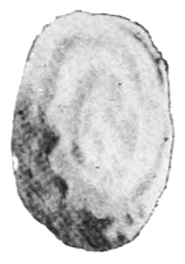 Drawing of the internal shell of Geomalacus maculosus.